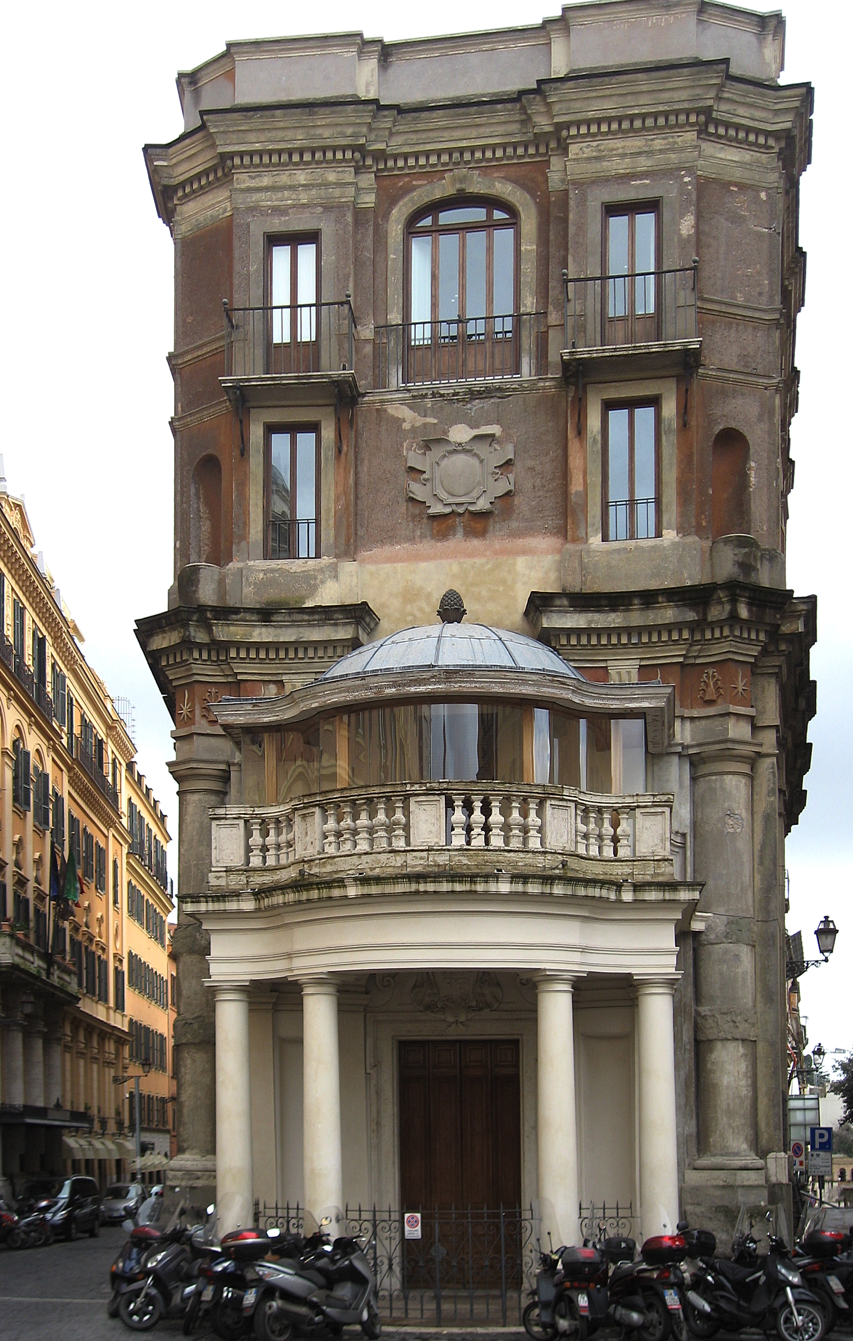 Palazzo Zuccari in Rom/Italien an der Piazza della Trinita dei Monti nahe der Kirche Santa Trinità dei Monti